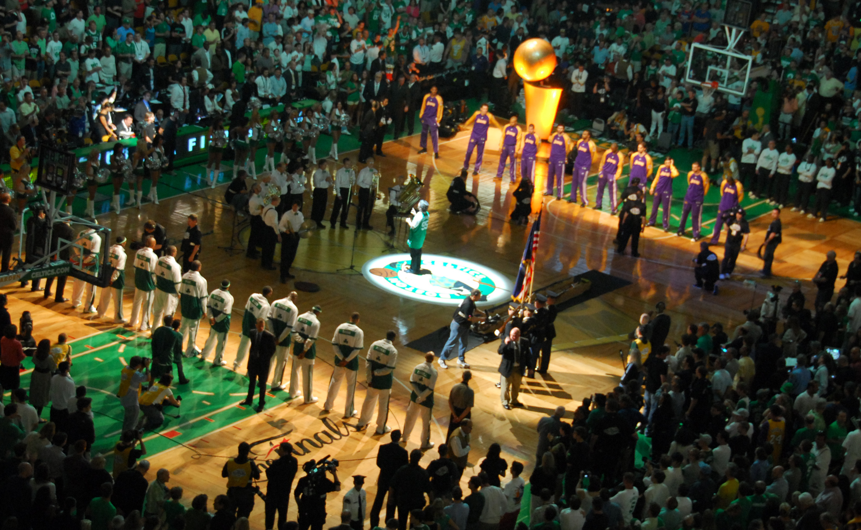 like this angle